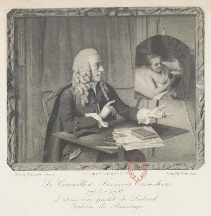 Le Conseiller François Tronchin 1704-1798 d'après un pastel de Liotard, heliogravure, 1895